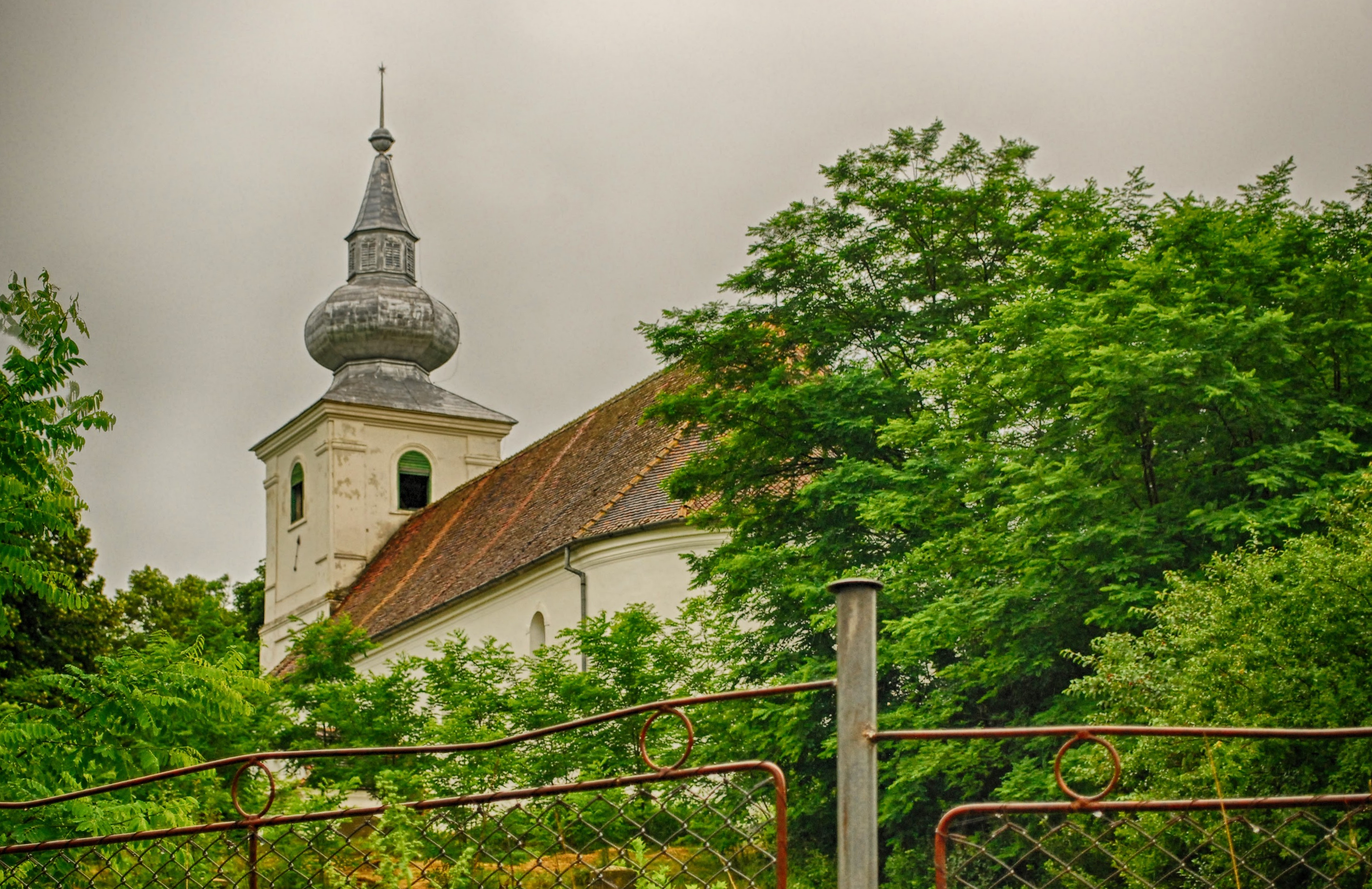 Reformed church in Hăghig, Covasna County, RomaniaRomână: Biserica reformată din Hăghig, județul Covasna, România